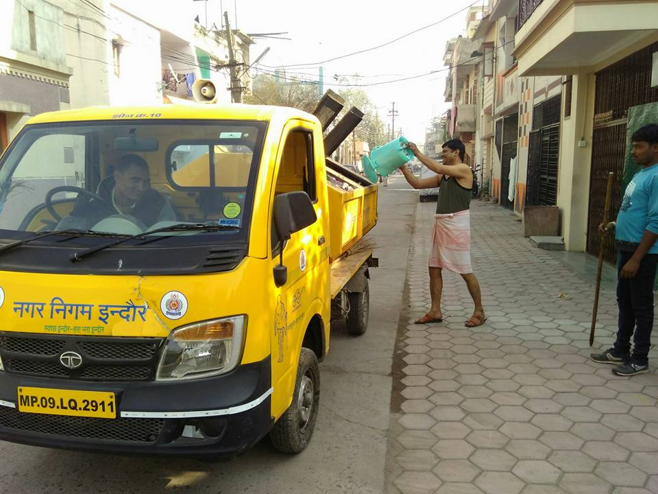 The picture shows a door-to-door garbage collection van from the city of Indore. With a man dumping garbage in it. Around 190 vans like these, move across the city four times a day and is designated under Swachh Bharat Mission.